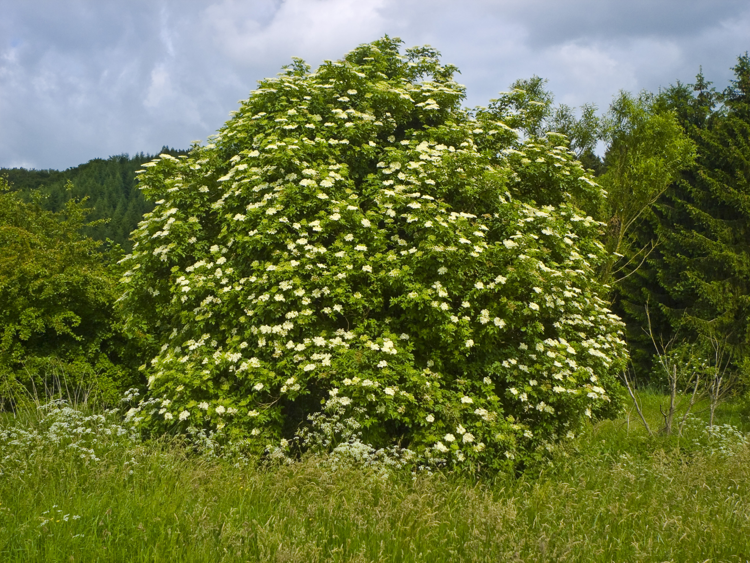 Black Elder (Sambucus nigra) in the Burgwald Mountains near Wetter-Unterrosphe, Hesse, Germany